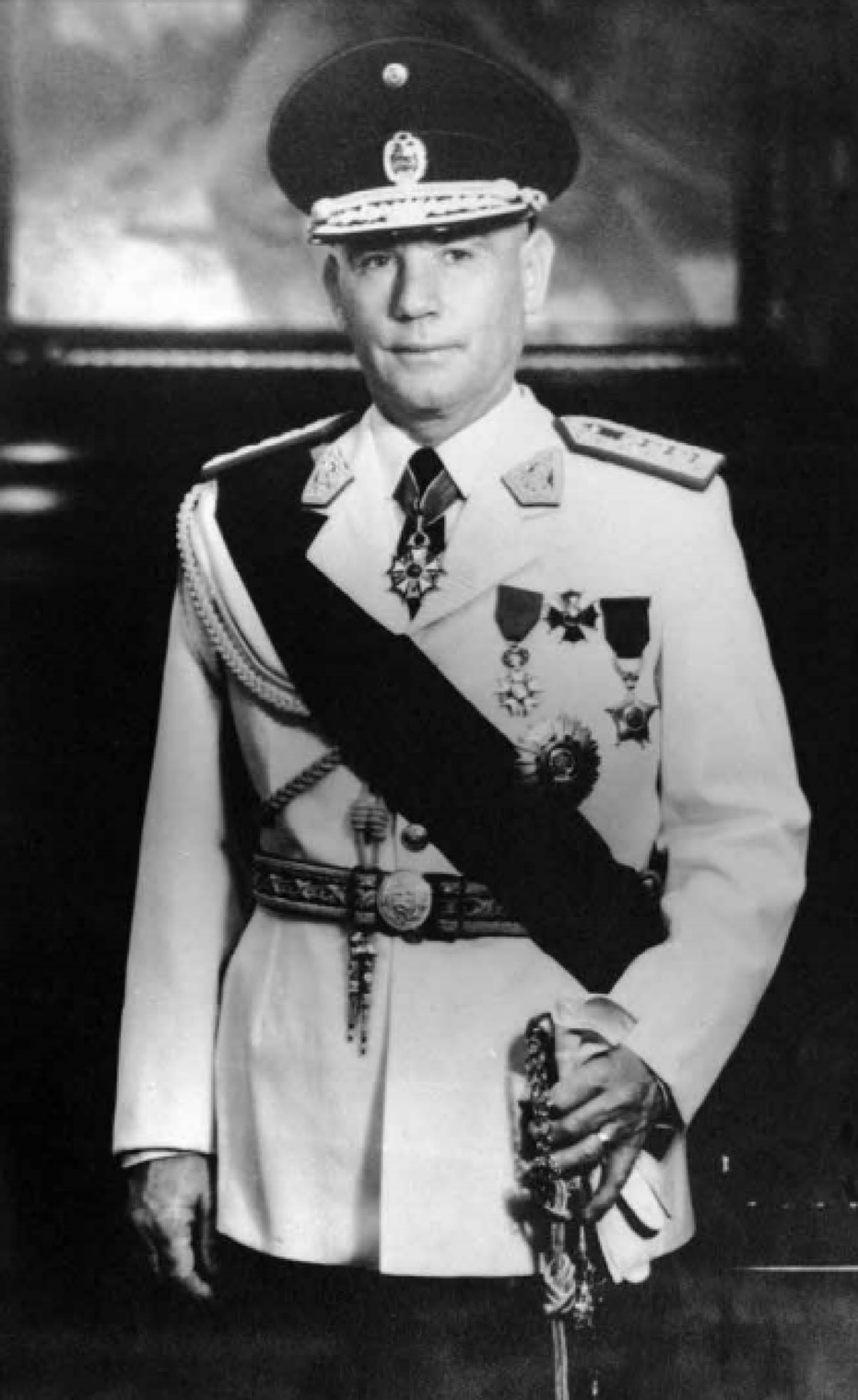 Nicolas Lindley Lopez - President of Peru 1963